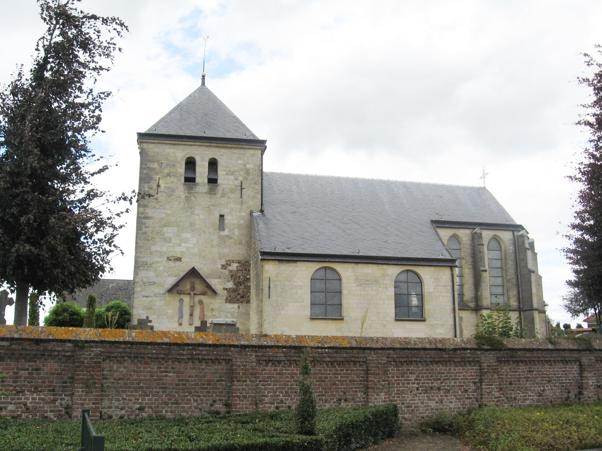 Church of Saint Hubertus in Neerglabbeek, Meeuwen-Gruitrode, Limburg, Belgium